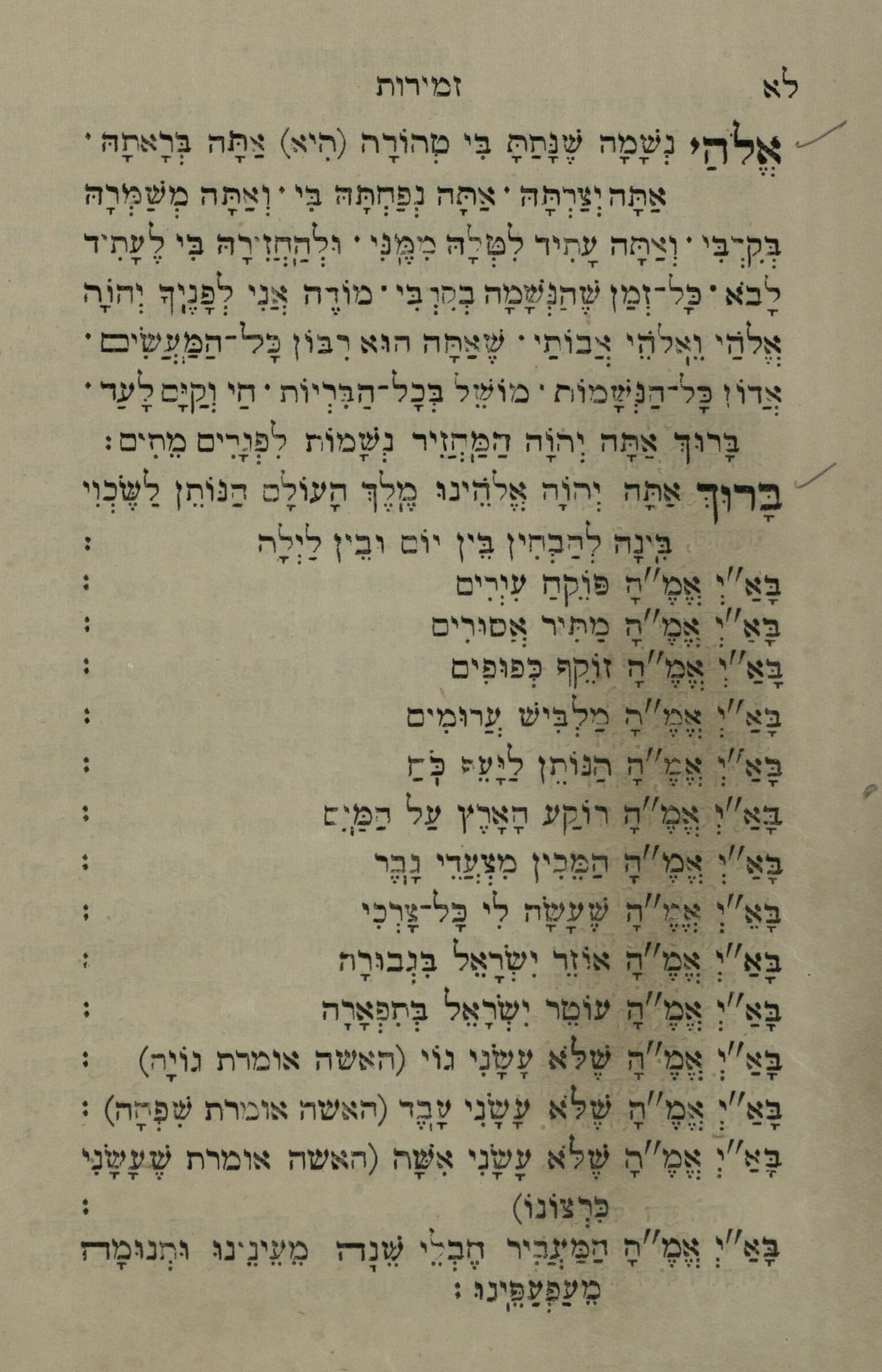 Jewish Prayer Book (Siddur) in Hebrew and Marathi , translated from Hebrew to Marathi in 1889 by Rajpurkar, Joseph Ezekiel